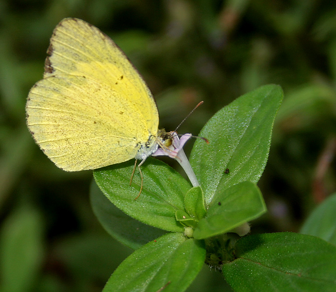 Small Grass Yellow Eurema brigitta at Ananthagiri Hills, in Rangareddy district of Andhra Pradesh, India.